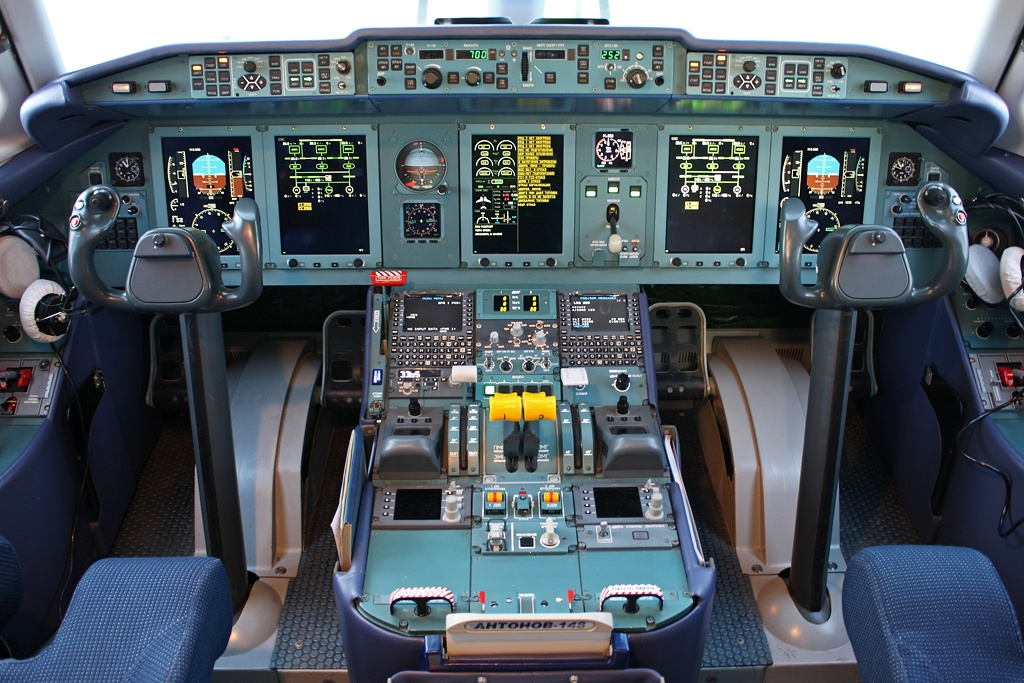 First scheduled flight of first Angara An-148 (three in the fleet now). Welcome! NB: Russian language cockpit.